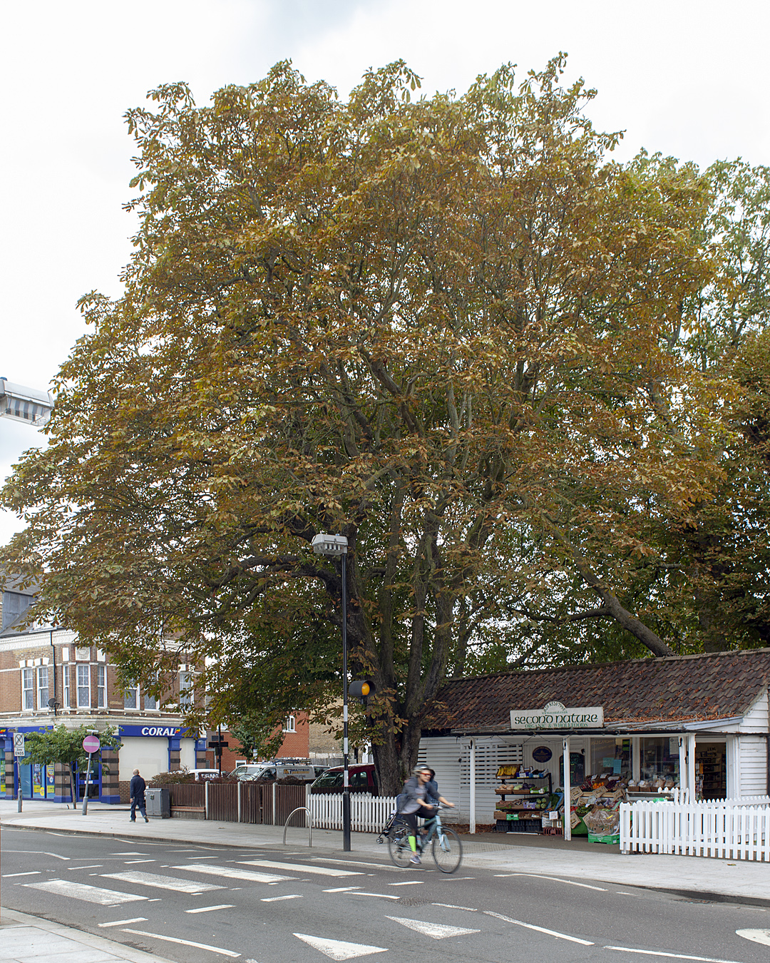 Horse Chestnut tree on Wood Street, London E17. A Great Tree of London. It shows signs of leaf-miner attack.